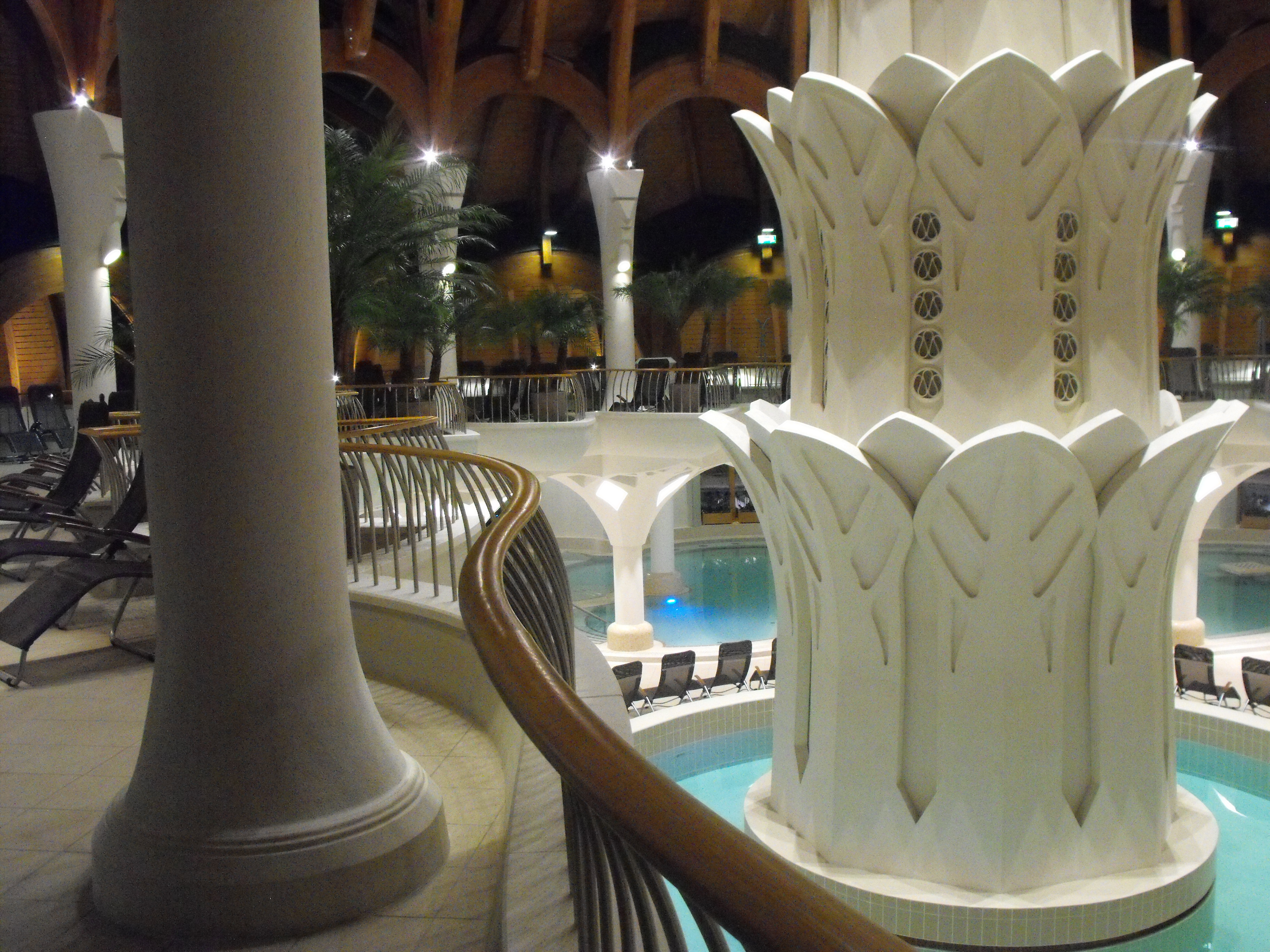 Inside view of the Makó Town Spa, designed by Imre Makovecz in organic style.